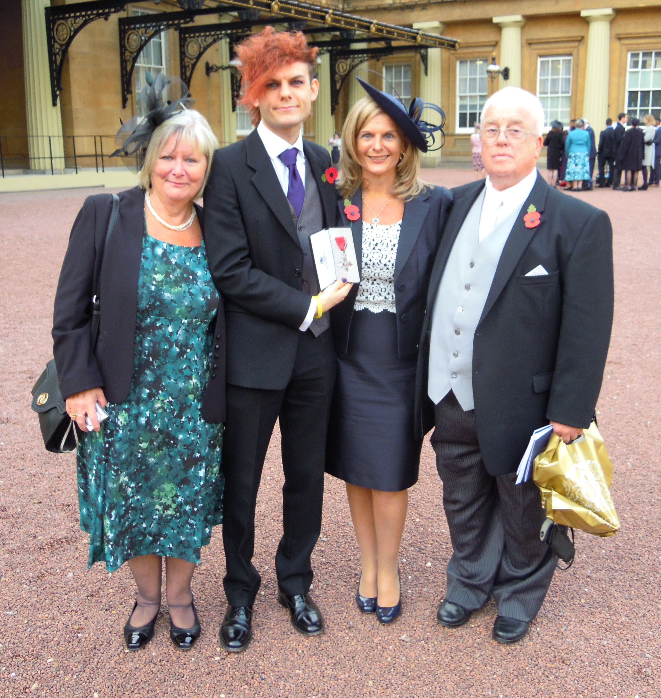 Jane Sutton (centre), the mother of Stephen Sutton, with his grandparents Tony and Ann Reeves, and his brother Chris Sutton, taken at an Investiture at Buckingham Palace when she received the MBE on behalf of her late son